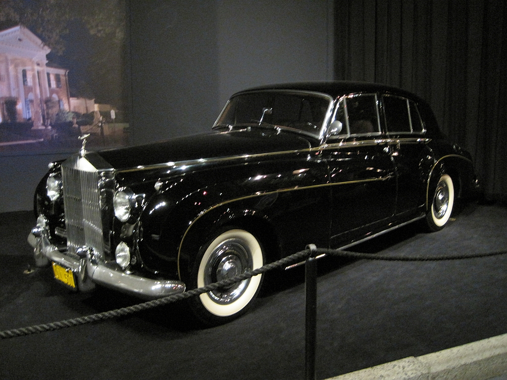 Elvis Presley Automobile Museum at Graceland in Memphis, Tennessee. 1960 Rolls-Royce Silver Cloud